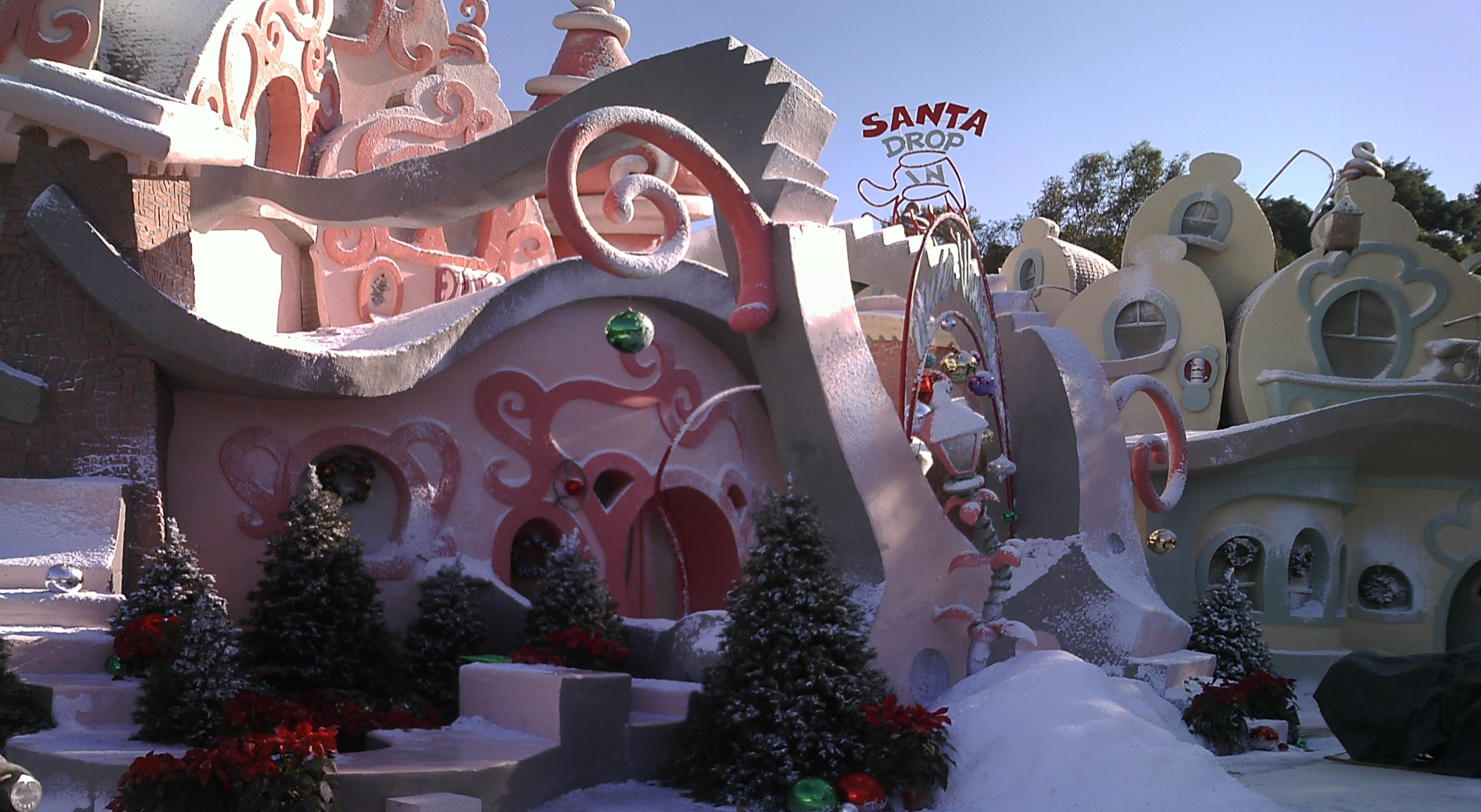 The set of the movie How the Grinch Stole Christmas at the Universal Studios Hollywood